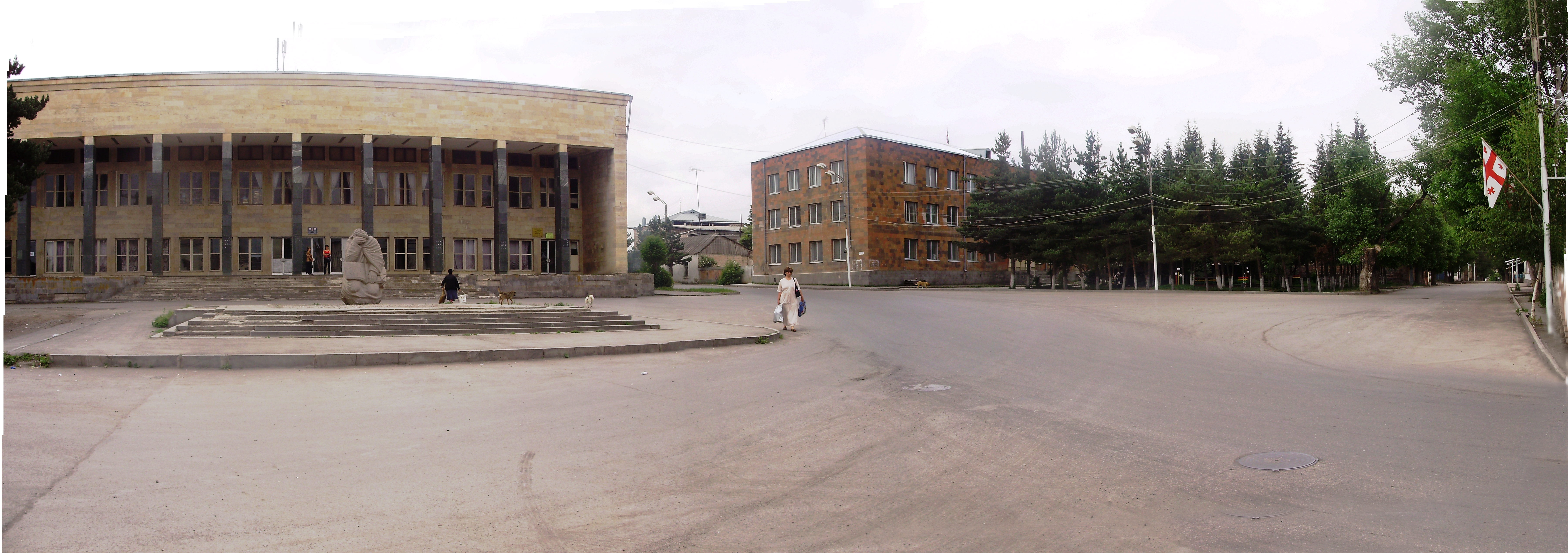 Main square of Akhalkalaki, Georgia